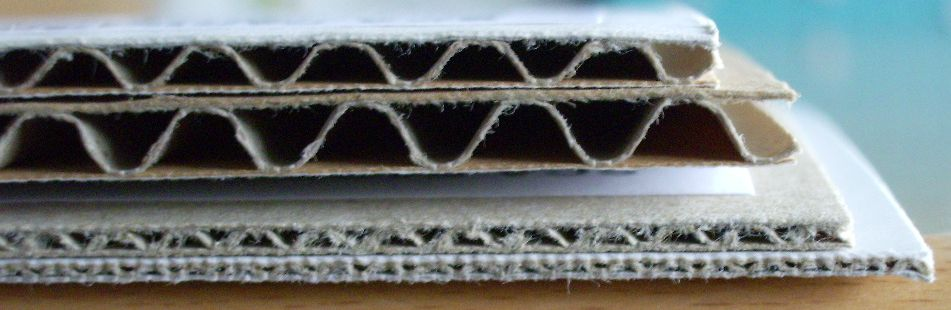 Picture of Corrugated Board from top to bottom B-Flute, C-Flute, E-Flute and F-Flute Own work, Picture made on 24th of March by User:Londenp